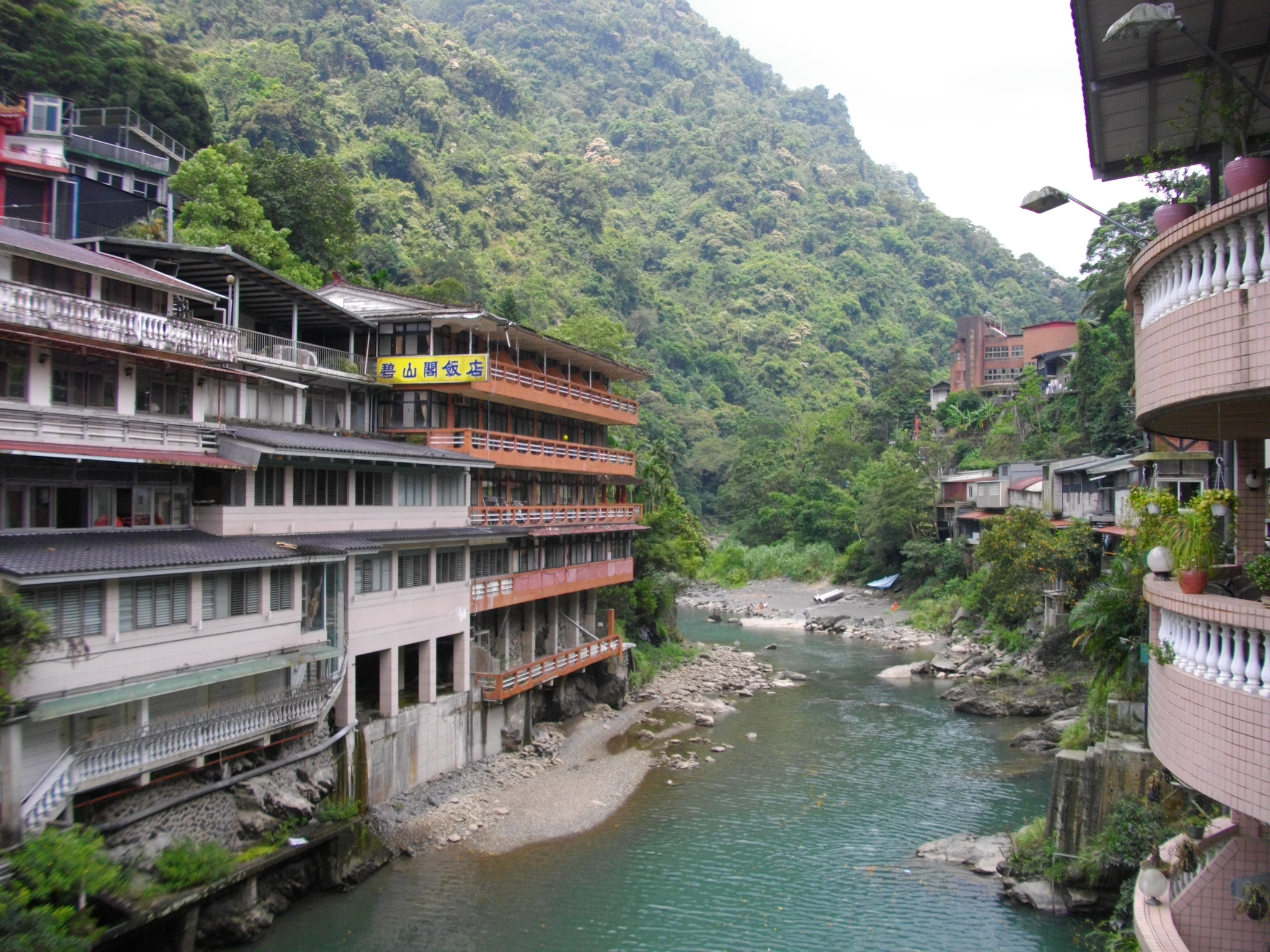 Wulai Hot Springs